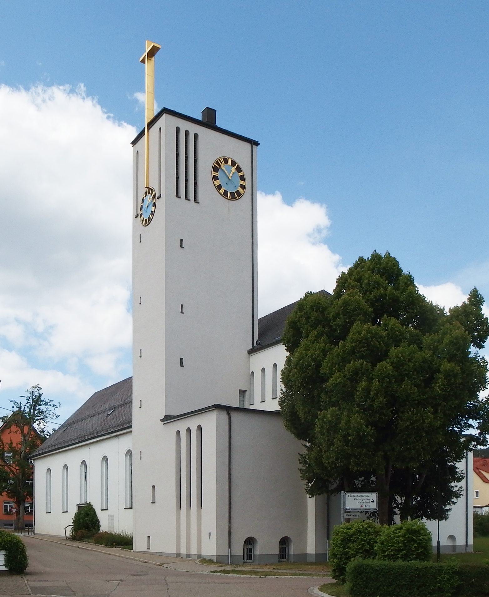 Catholic Church, Bartholomä, Germany